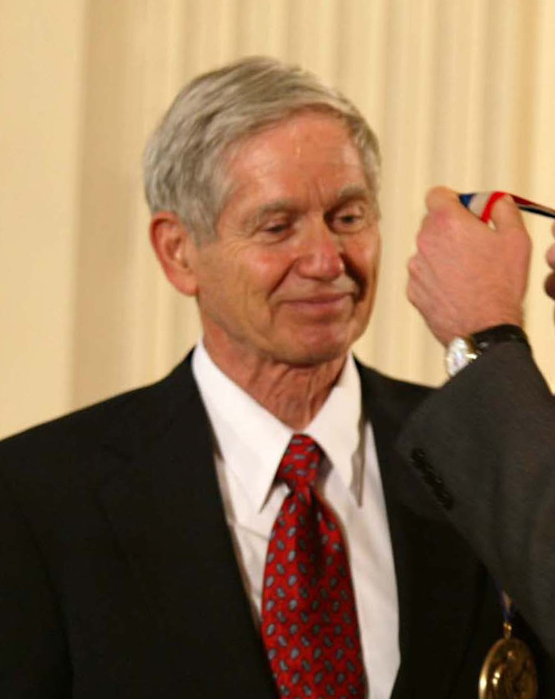 Charles Keeling receives the Medal of Science from President Bush.